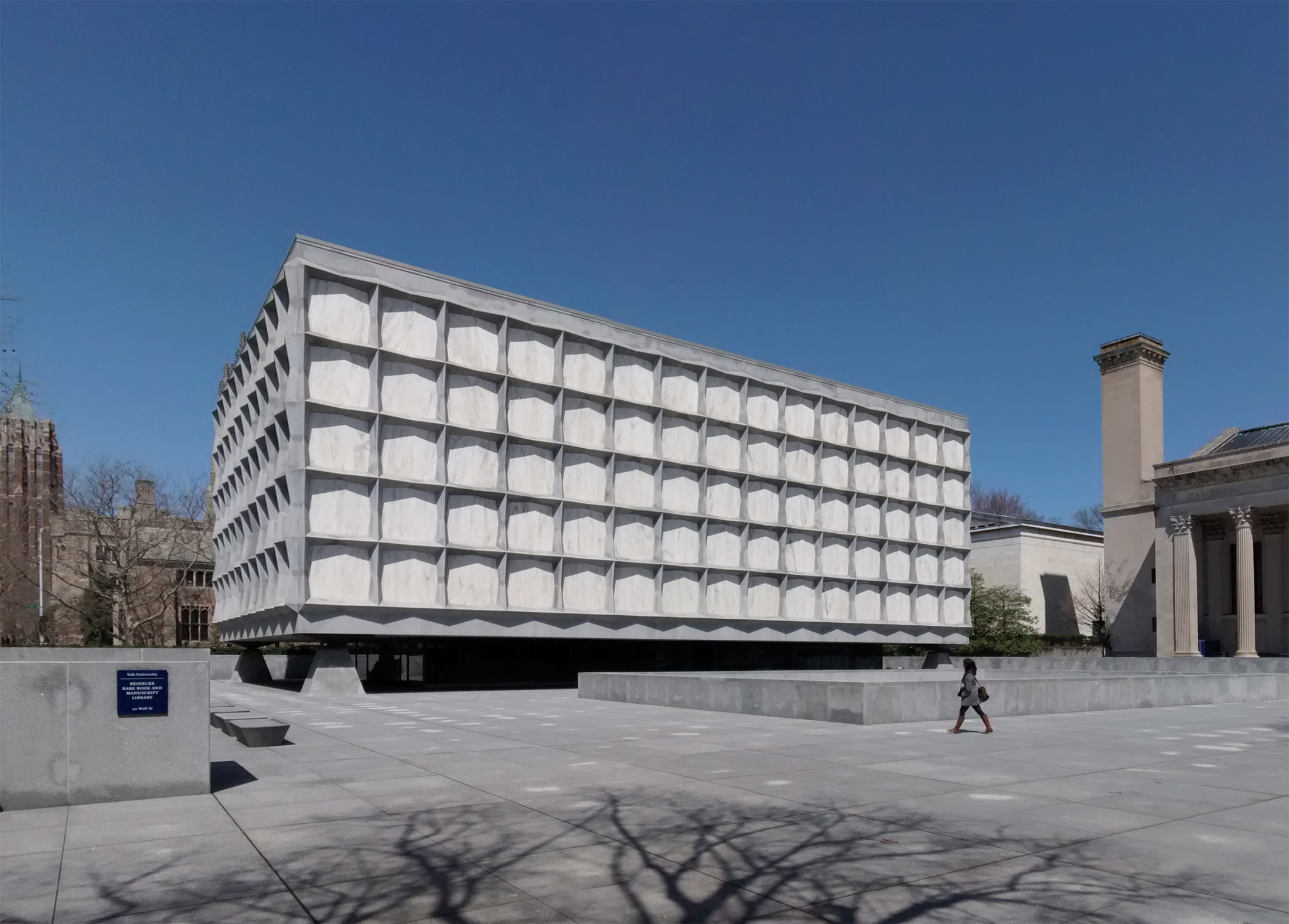 Beinecke Rare Book & Manuscript Library, Gordon Bunshaft of Skidmore, Owings & Merrill, Yale University Hewitt Quadrangle, New Haven, Connecticut, Apr. 2014